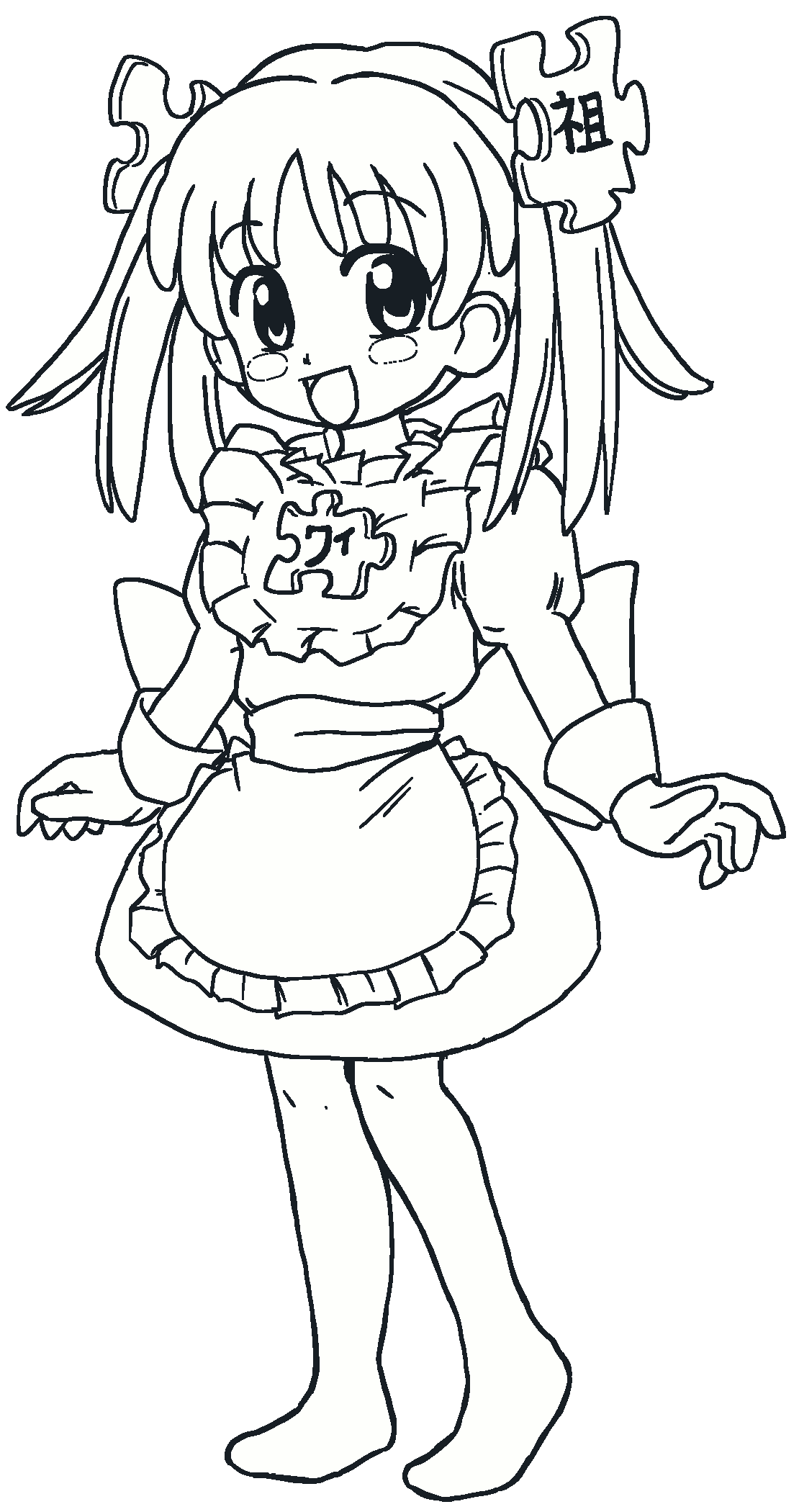 Wikipe-tan. Black and white version by Nikola Smolenski.